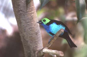 Copyright by Burns, Kevin J. Assistant Professor Department of Biology - San Diego State University